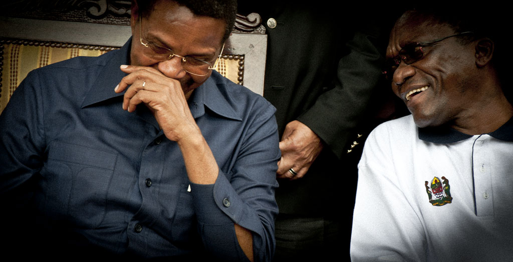 During an investors' forum in Mpanda.